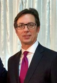 Stevo Pendarovski, president of North Macedonia, at a meeting with Greek Foreign Minister George Katrougkalos